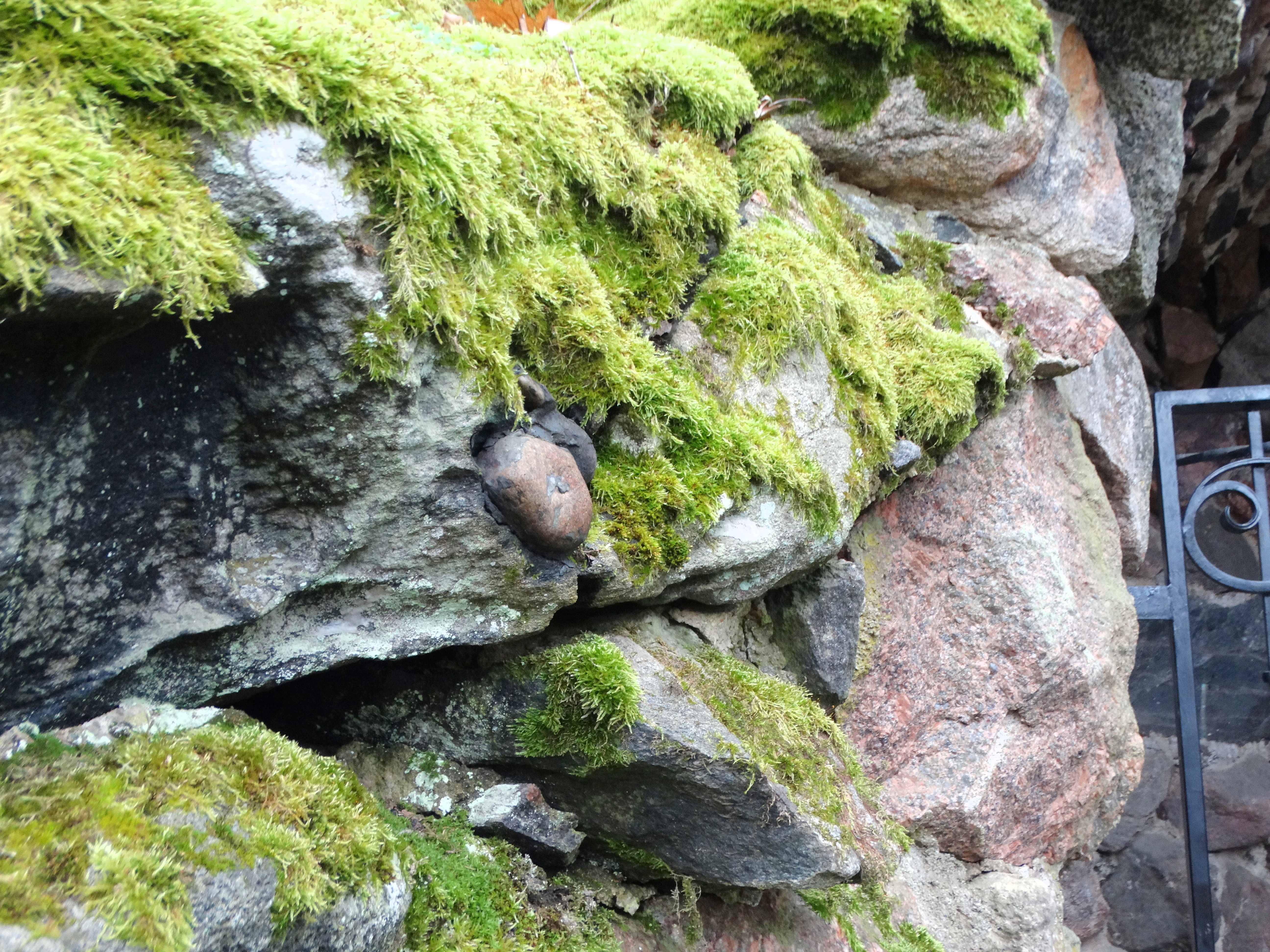 Mythological stone at the Lourdes grotto, Plungė, Lithuania